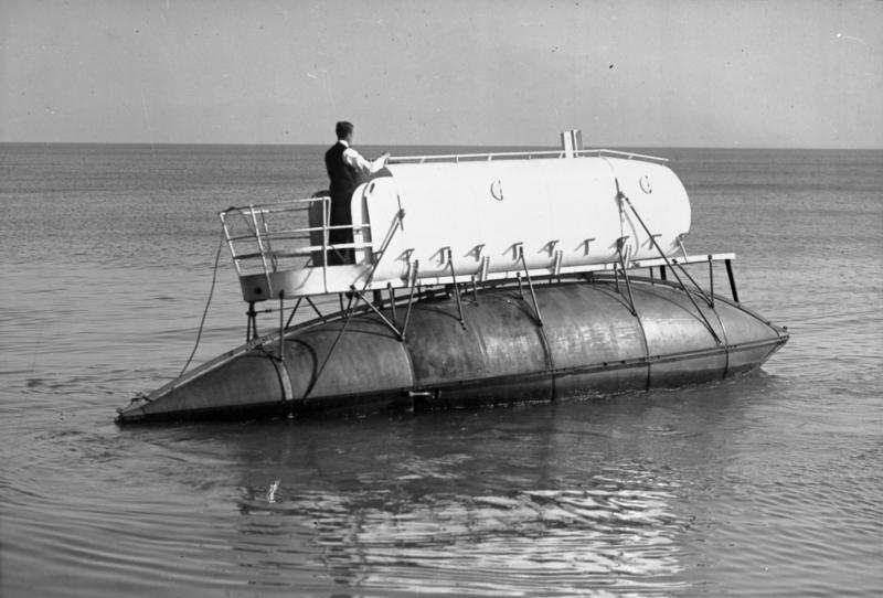 An unsinkable rescue boat! The unsinkable rescue boat, an invention of the German engineer Sigg during a test drive. The boat is a steel float and has a length of 9 m. A water-tight sealed room is built ontop of the floating body.